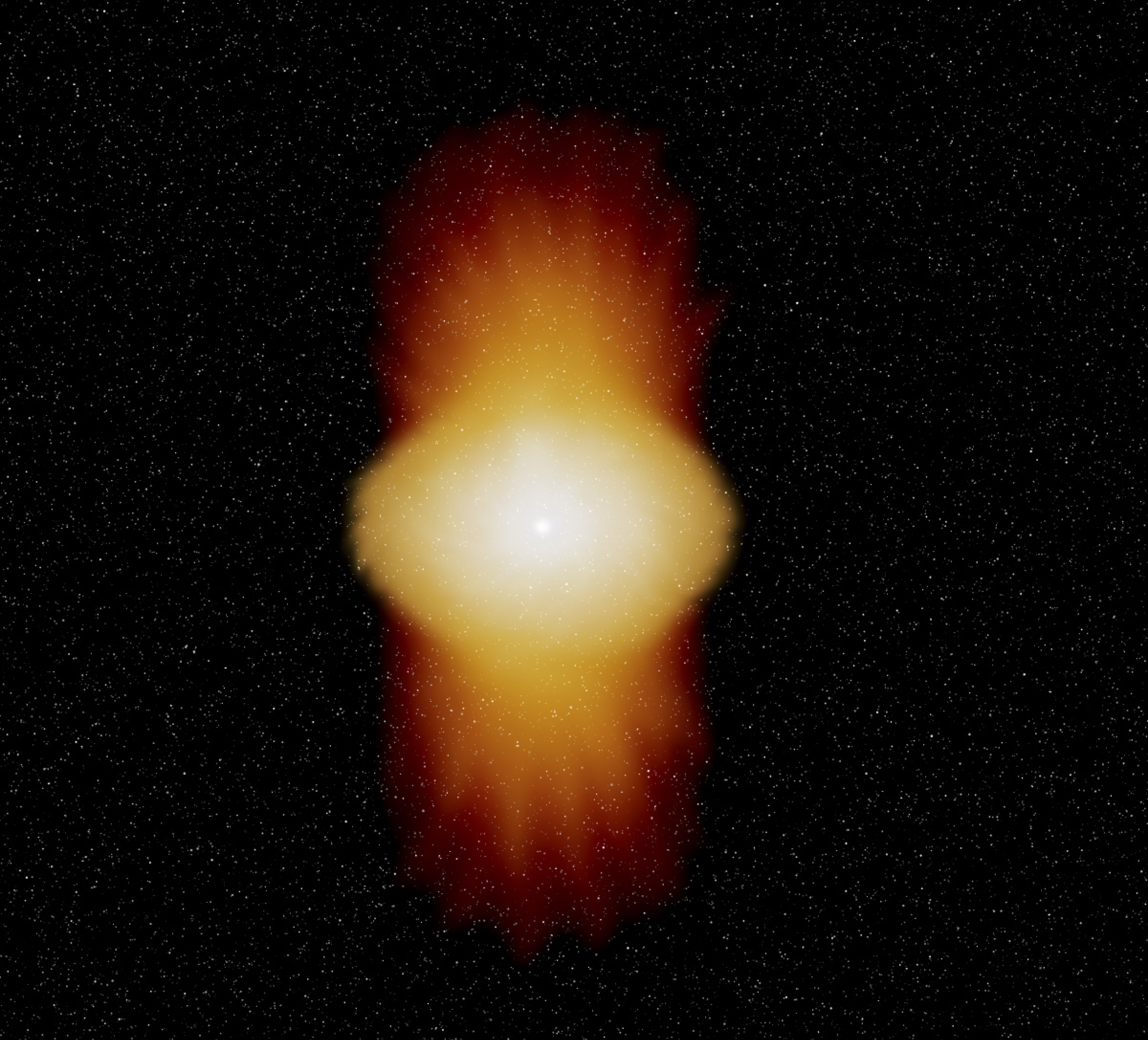 Artist's impression of the Be star Alpha Arae. The star is rotating with a velocity close to its break-up velocity and loses mass through a stellar wind emerging predominantly from the poles and reaching velocities of the order of 2000 km/s. The star is surrounded by a disc in Keplerian rotation.